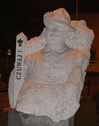 Monument of Andrzej Małkowski in Tarnów